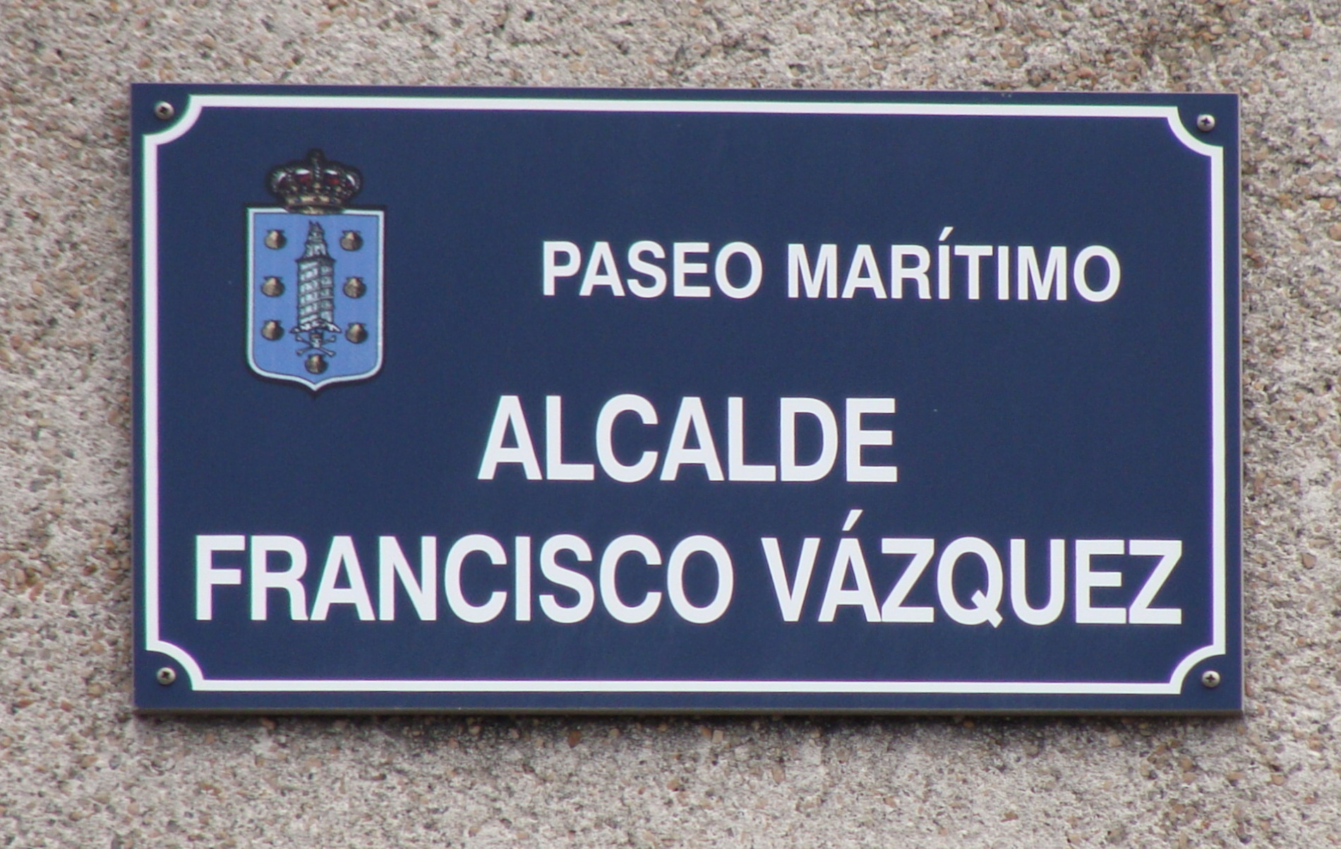 Alcalde Francisco Vázquez boardwalk in A Coruña, Galicia, Spain.